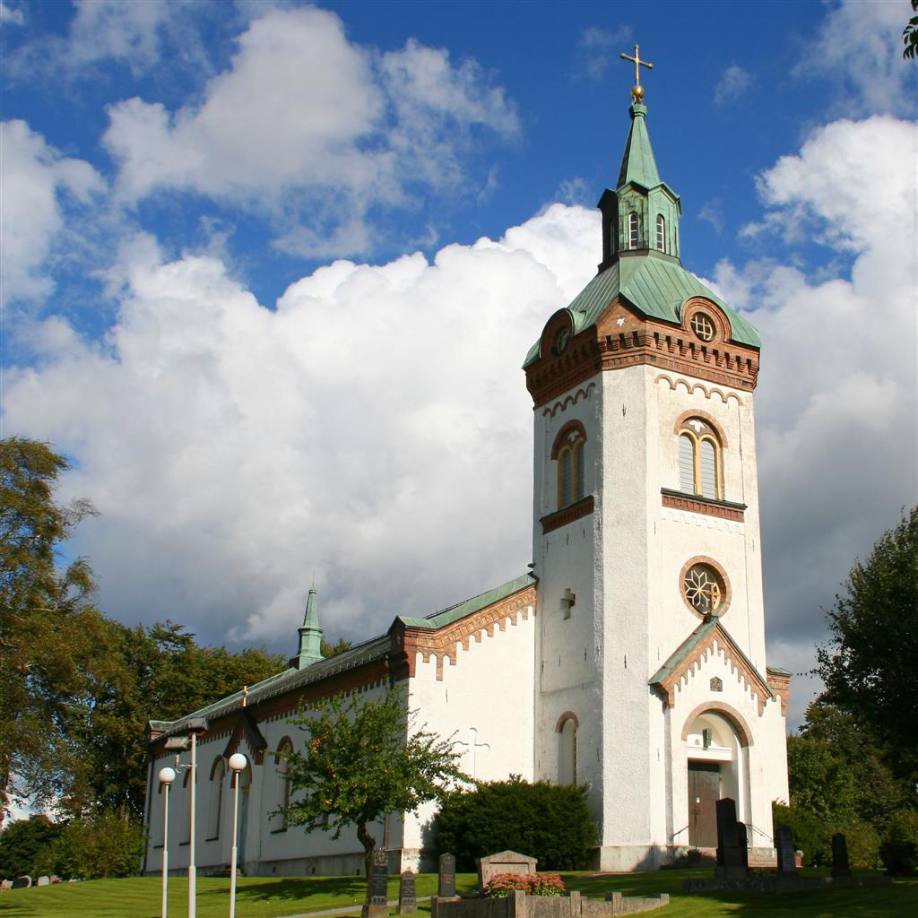 Björketorp Church